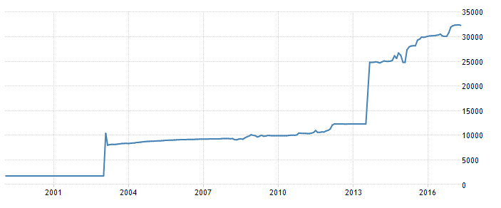 currency value of US dollar vs Iranian Rial (2000-2017)